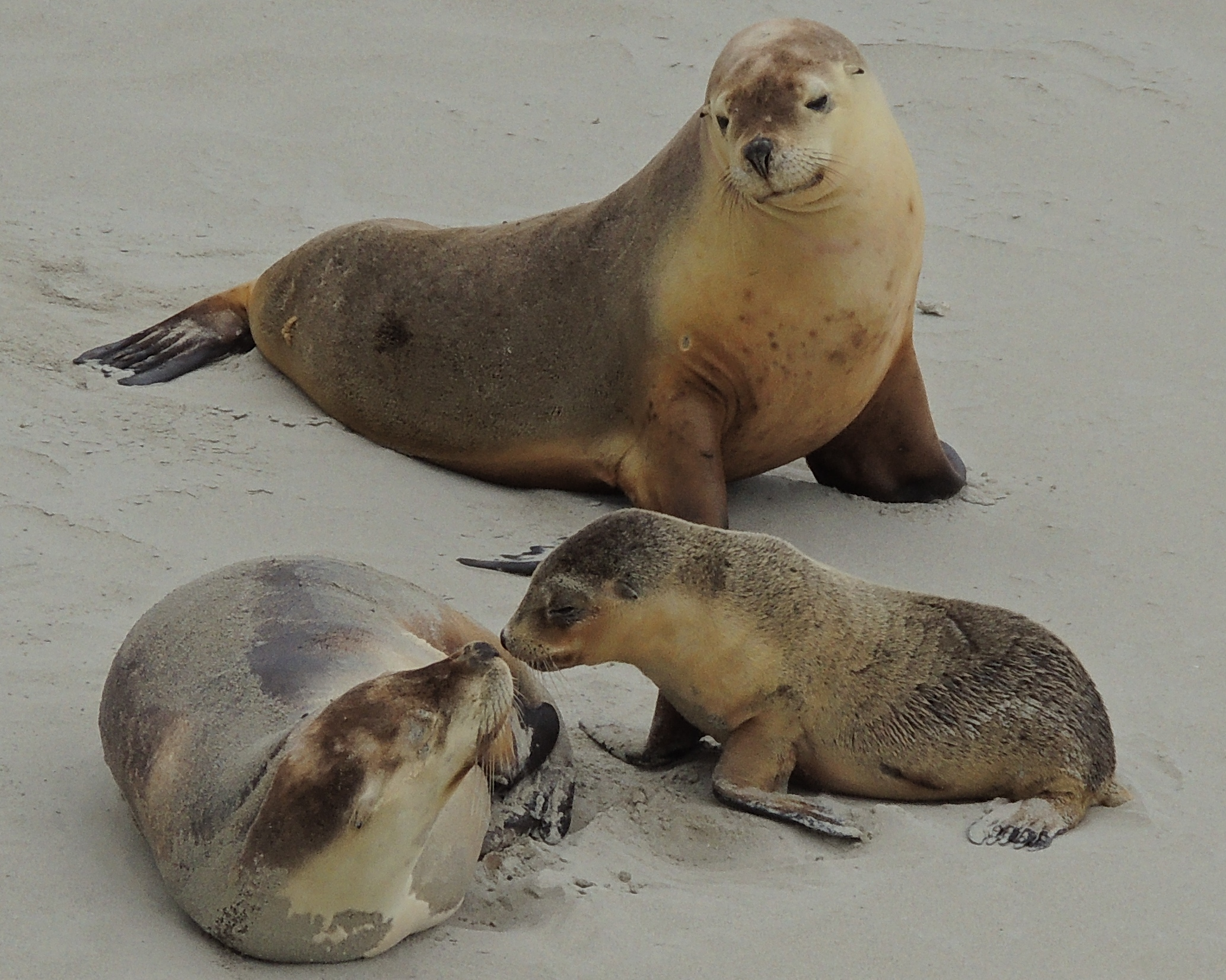 Australian sea lion (Neophoca cinerea), Seal Bay Conservation Park, Kangaroo Island, South Australia